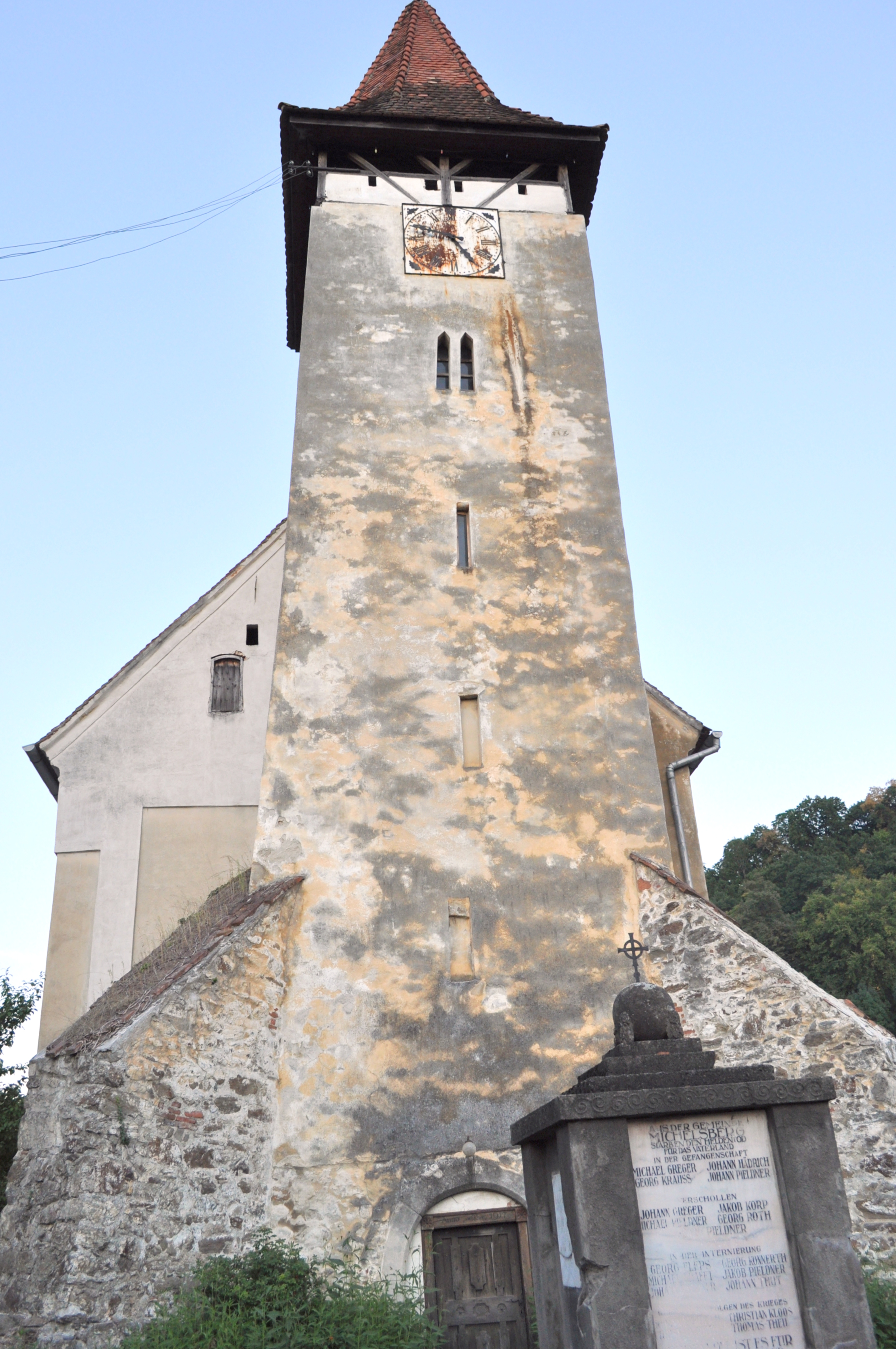 Lutheran church in Cisnădioara, Sibiu county